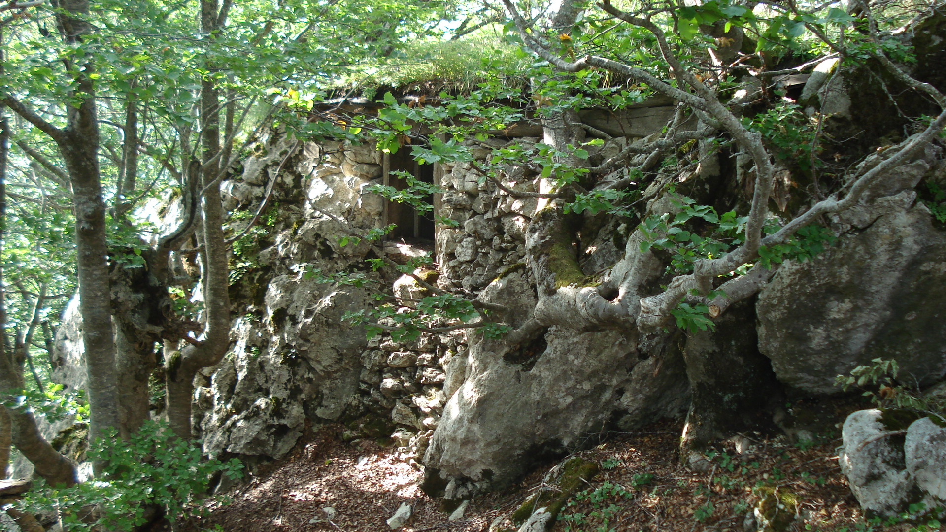 Photo of the house of the French painter Charles Moulin at Monte Marrone